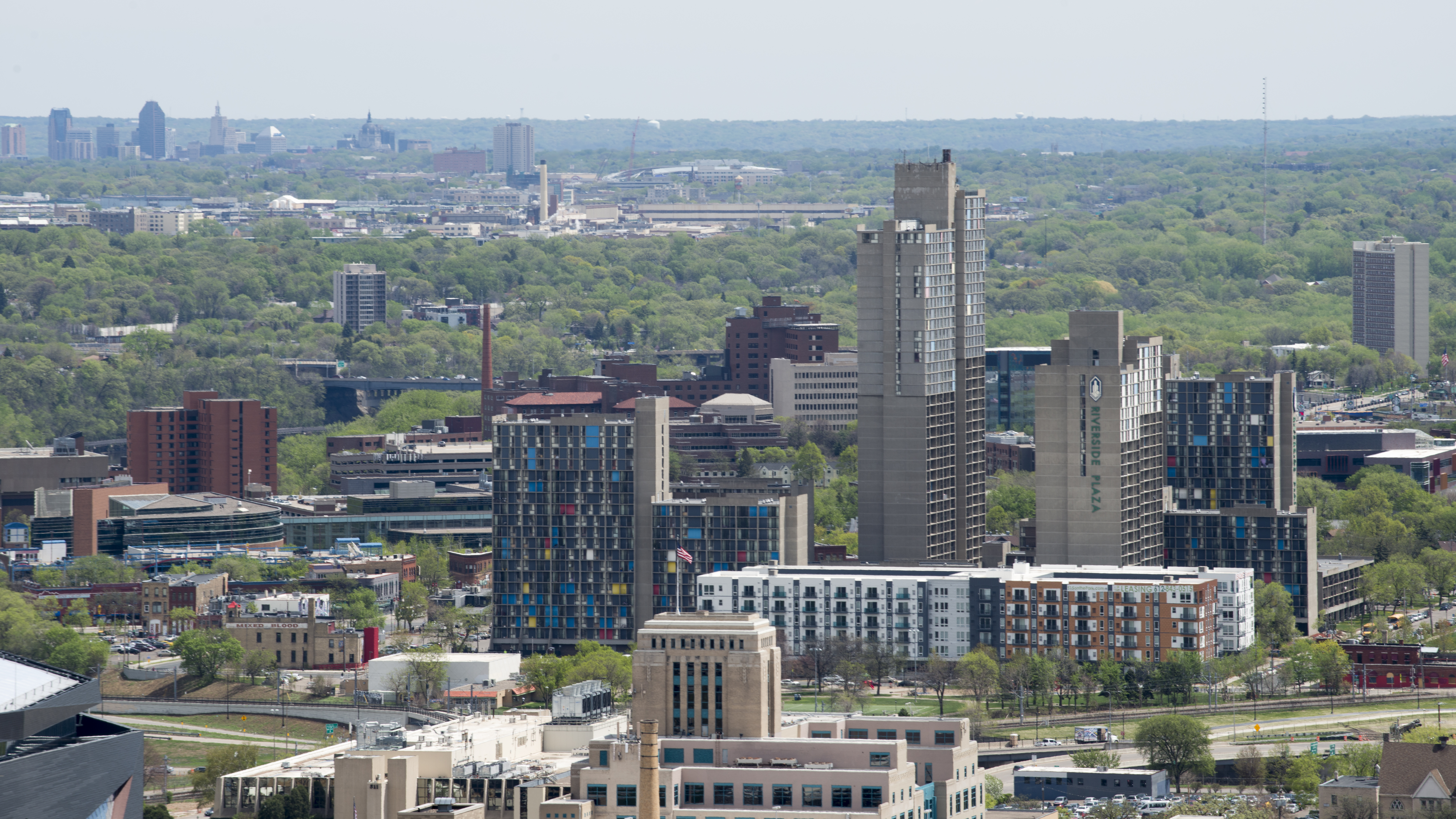 May 10, 2018 Minneapolis, Minnesota This is the Cedar-Riverside neighborhood in Minneapolis. Downtown St. Paul can be seen in the distance on the left. 2018-05-10 This content is provided under the terms of the Creative Commons Attribution License. Give attribution to: Fibonacci Blue